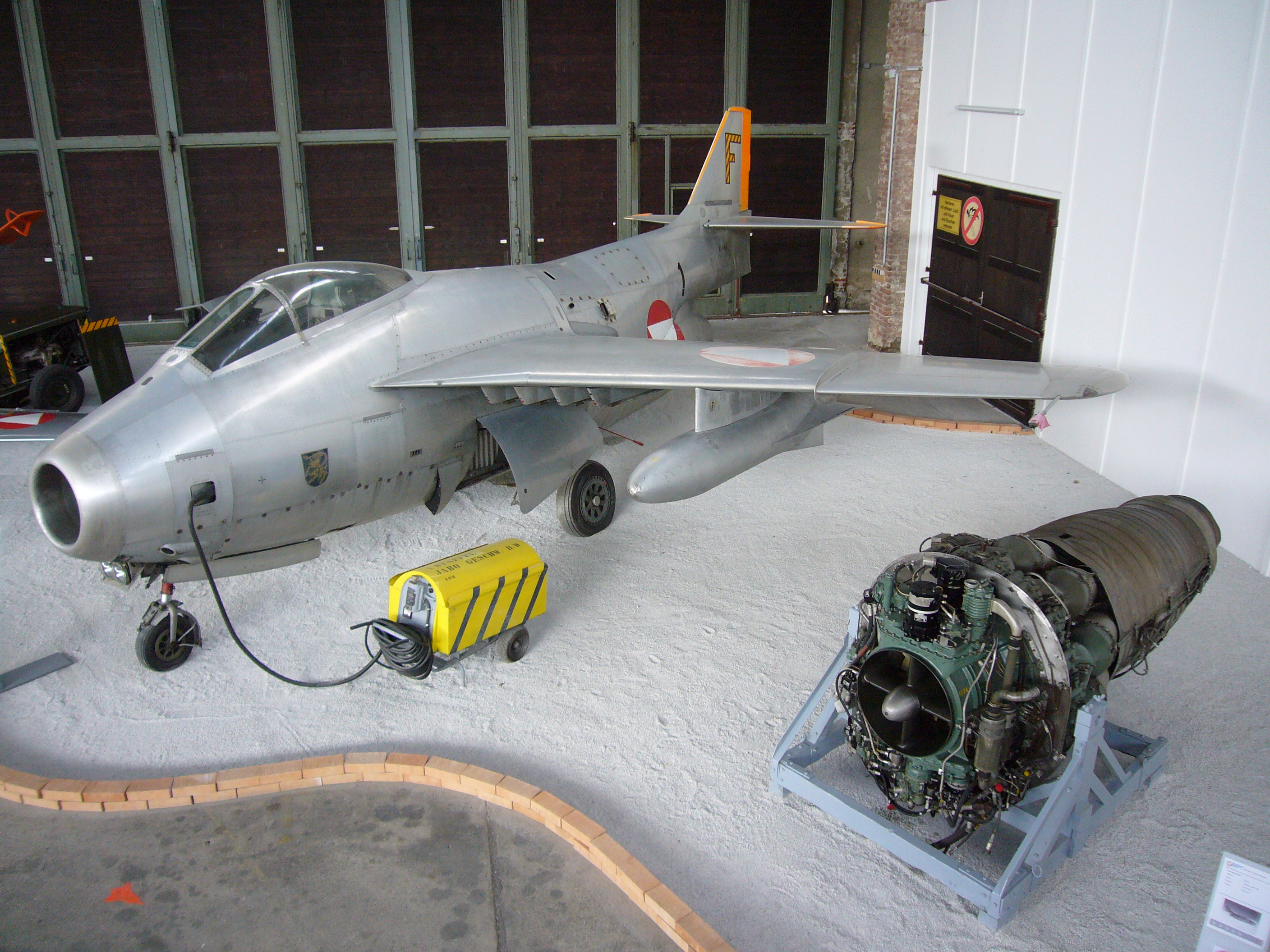 Saab J29F Tunnan ‘Yellow F’ of the Austrian Air Force in the exhibition “Military Aviation 2006” in Zeltweg